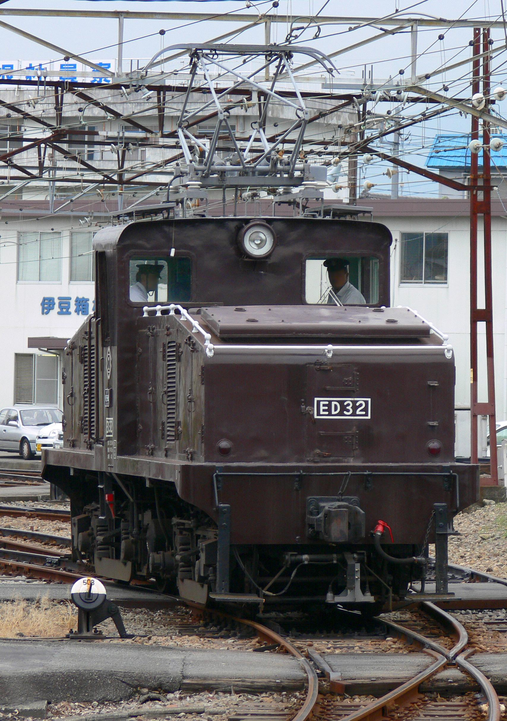 Izuhakone Railway Type ED32 Electric locomotive(Japan). It takes a picture from the public road at the Izuhakone Railway Oba factory. See also Ja:伊豆箱根鉄道ED31形電気機関車 for more information(written in Japanese). 伊豆箱根鉄道ED31形電気機関車（ED32）。 大場工場の構内にて入換中の所を公道より撮影。